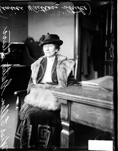 Ellen Gates Starr